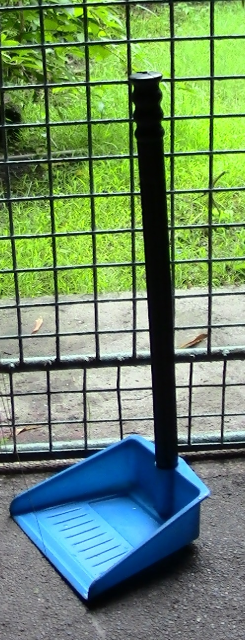 plastic dustpan.